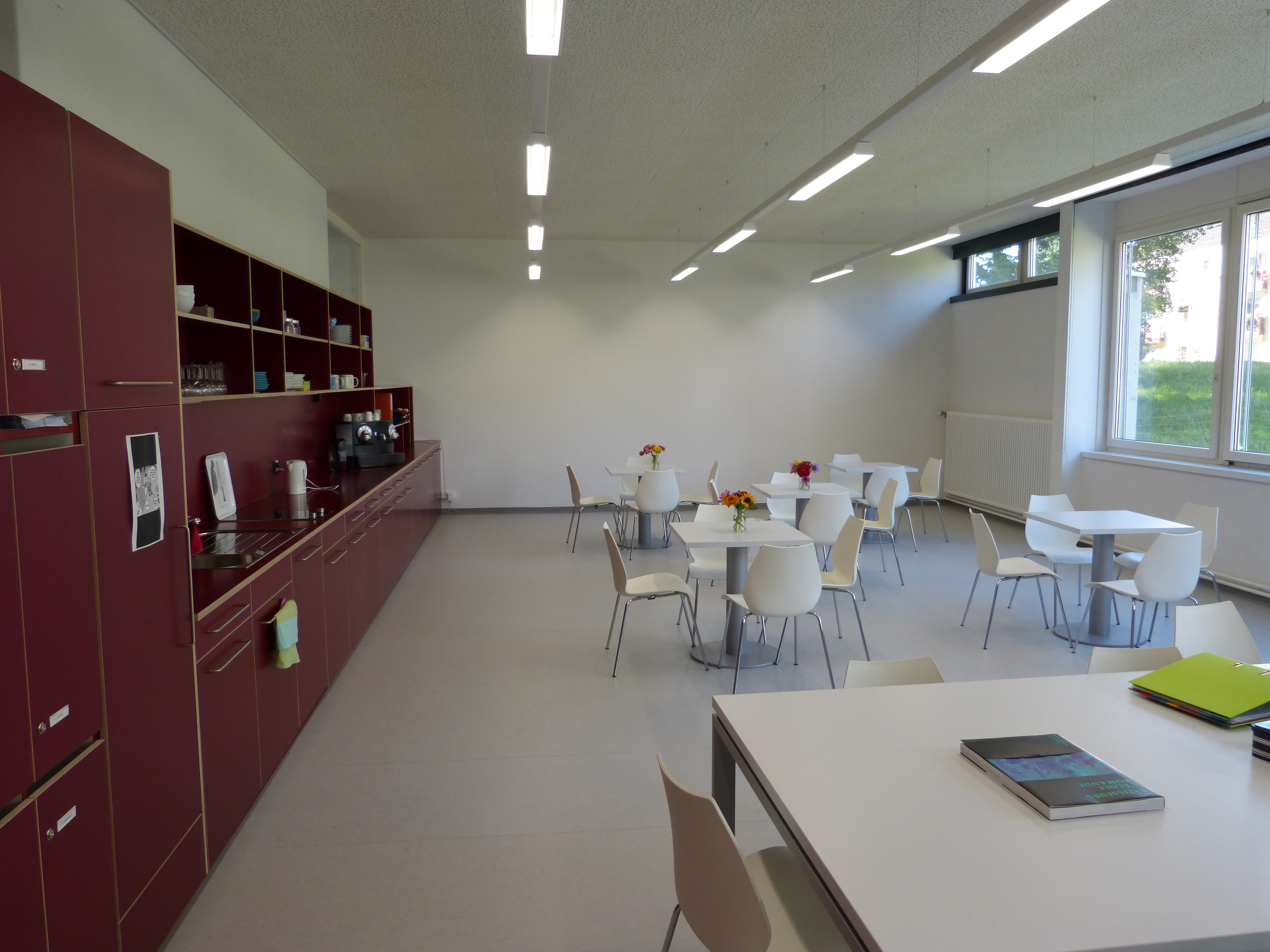 Teachers room at Chantemerle school, Orbe.